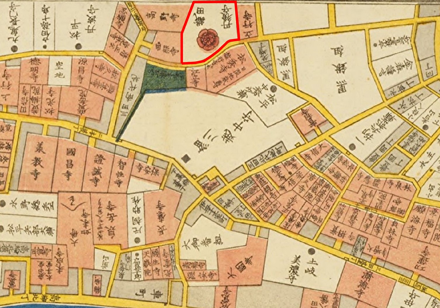 A residence of Oda clan at Edo